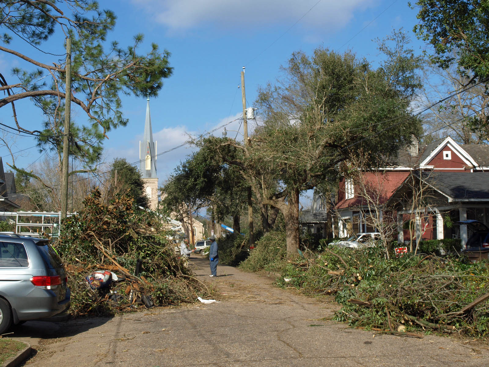 Aftermath of the Christmas Day tornado on South Rickarby Place in Mobile, Alabama. Trinity Episcopal Church is in the background.